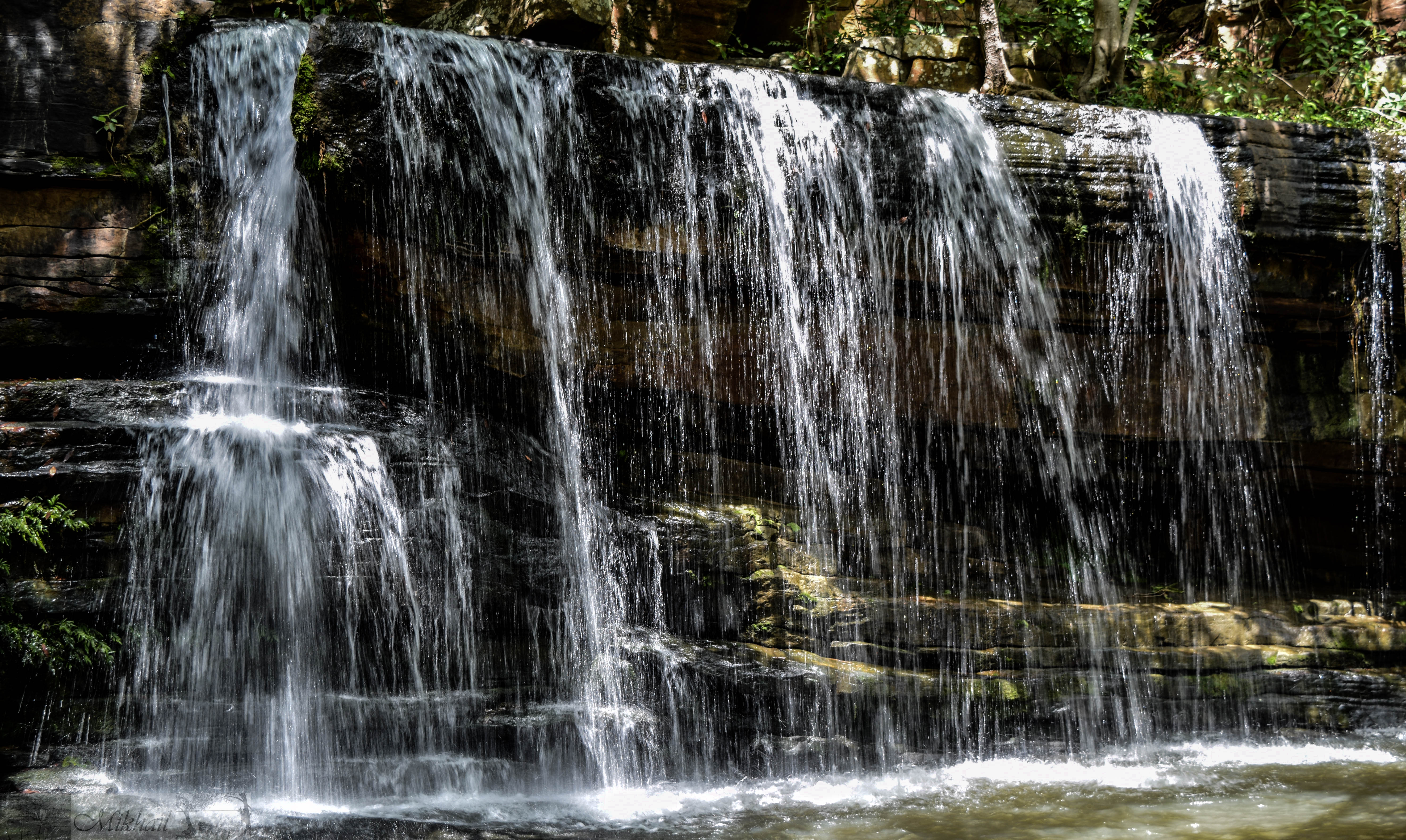 Tanongou fall's near Pendjari National Park